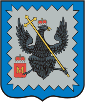 Mosalsk (Kaluga oblast), coat of arms (1777)